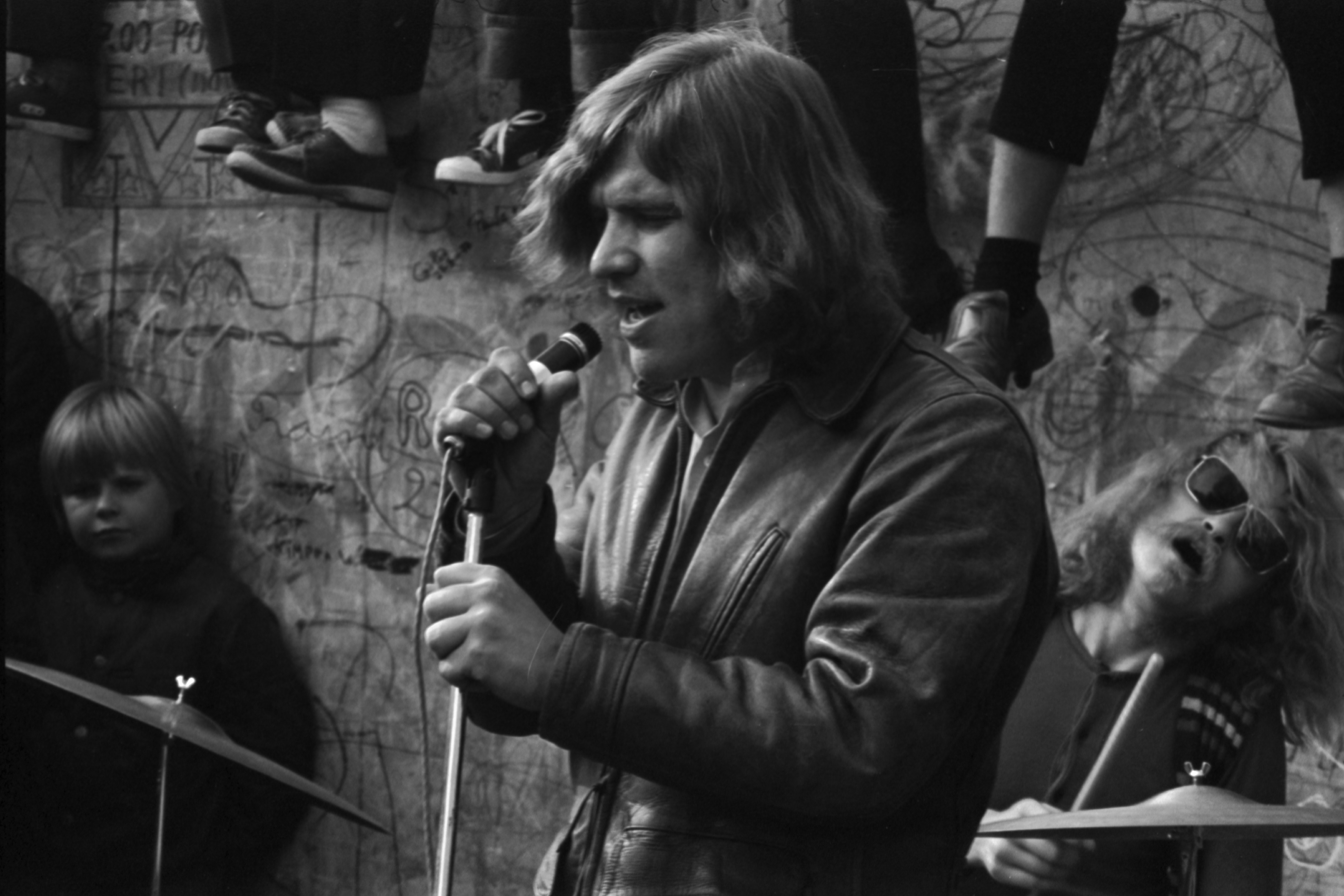 Photograph of the Finnish music group Apollo (1969–1970) performing in Helsinki, Karhupuisto.